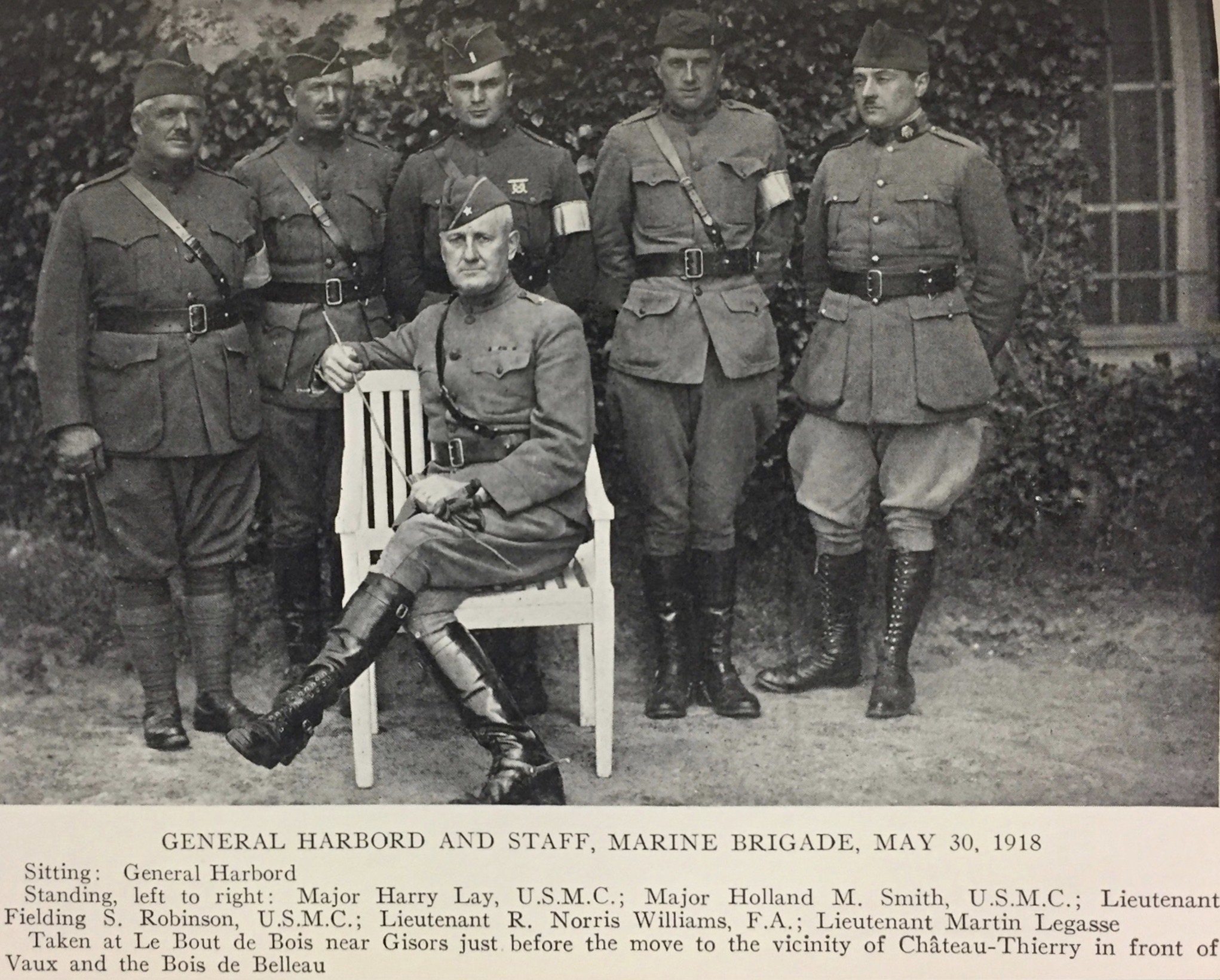 General Harbord & his 4th Marine Brigade Staff, after being transferred by General Pershing from his staff, immediately after an army shipping schedule incident.